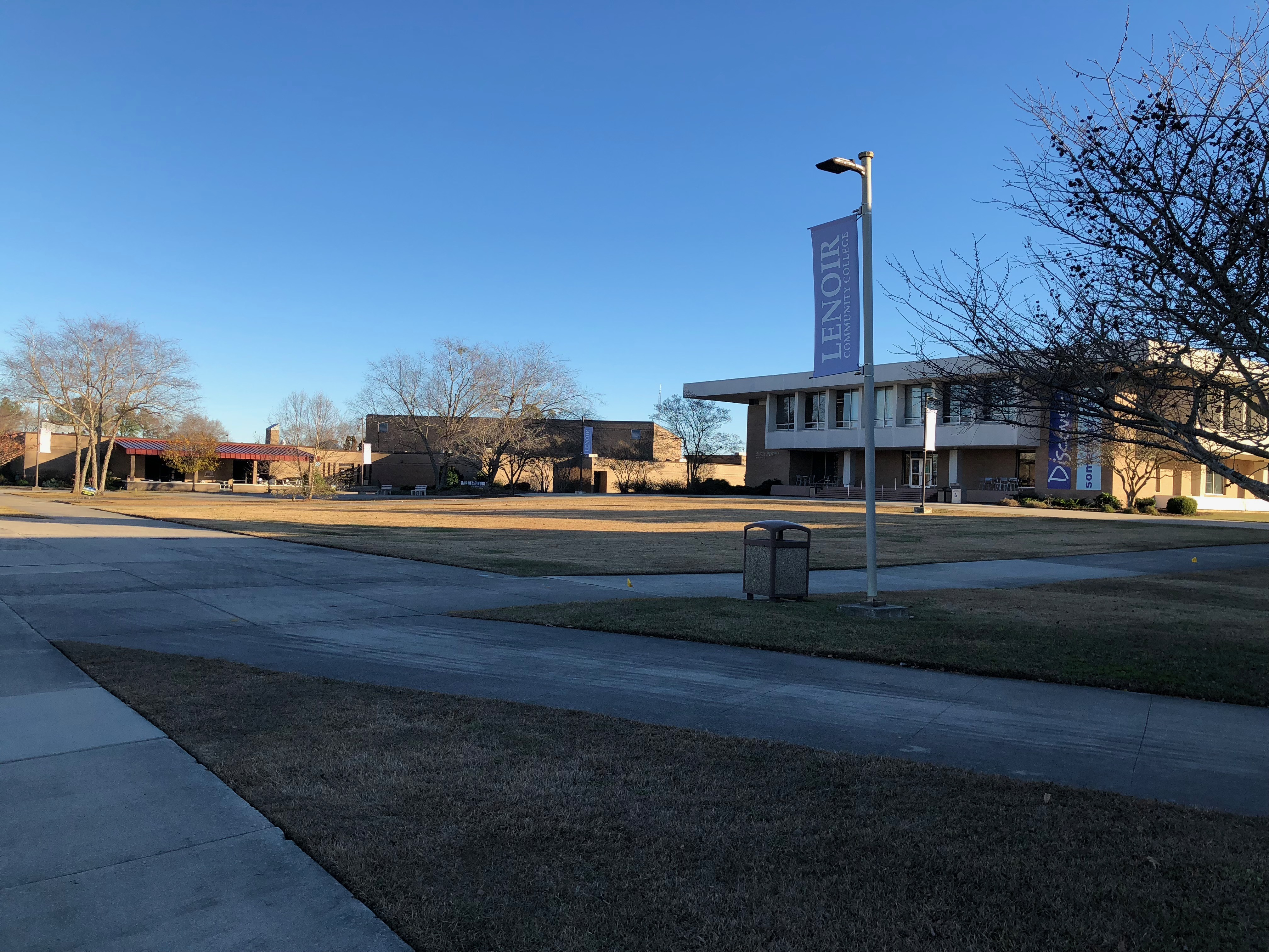 Exterior shot of LCC's library building (right) and student center (left).